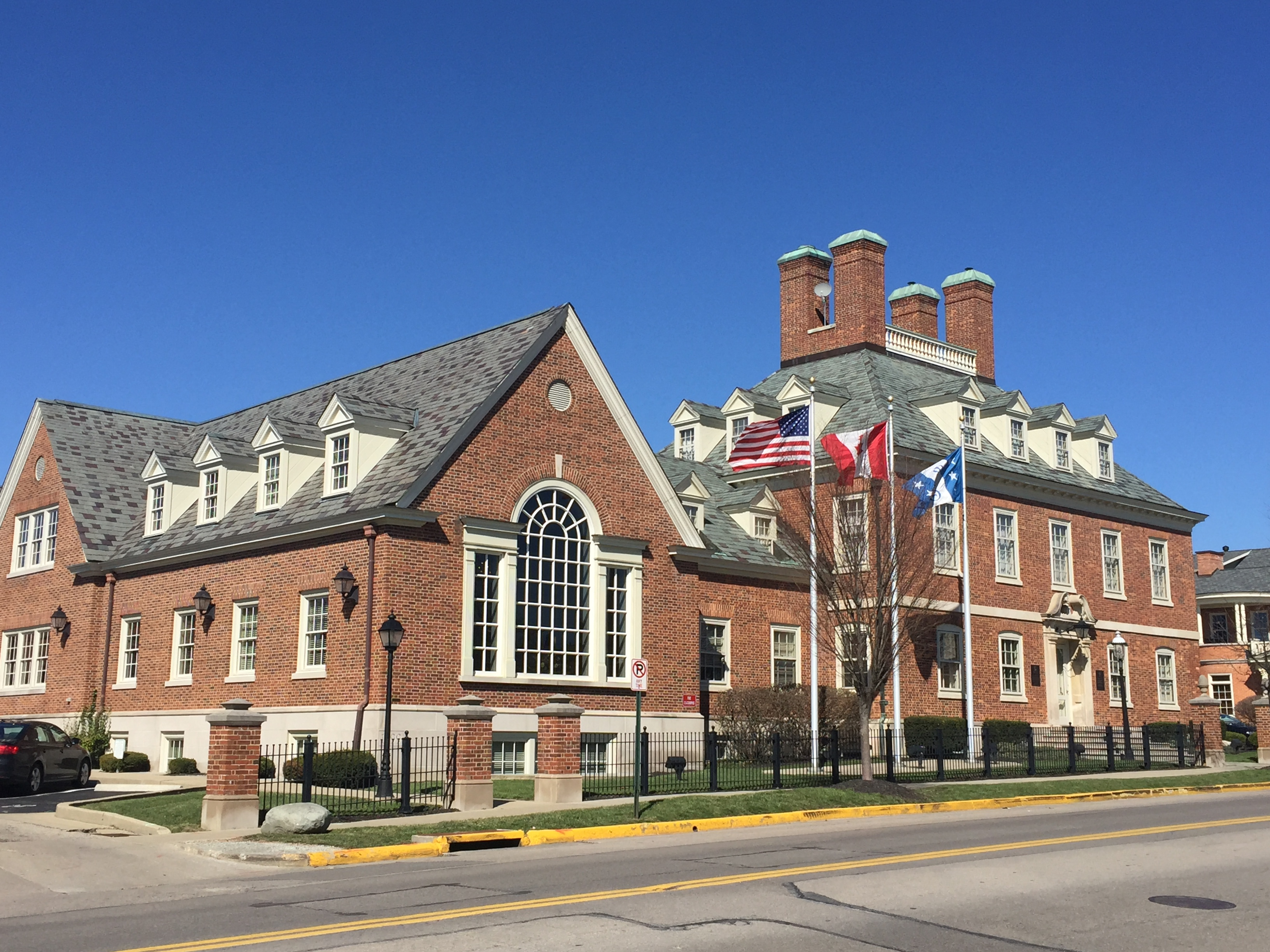 Phi Delta Theta Fraternity House at Miami University.